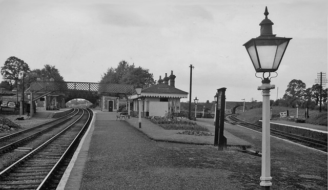 Berkeley Road Station. Near to Breadstone, Gloucestershire, Great Britain. View SW, towards Bristol, also Sharpness and Lydney to right; Birmingham - Bristol Main line, junction of Severn & Wye Joint line via Sharpness and Severn Bridge to Lydney. This station was closed to passengers 4/1/65, following cessation of service on S&WJ line, which in turn had been curtailed at Sharpness after destruction of the Severn Bridge on 26/10/60. Berkeley Road remained open for goods until 1/11/66 and the main line remains of course open and flourishing.